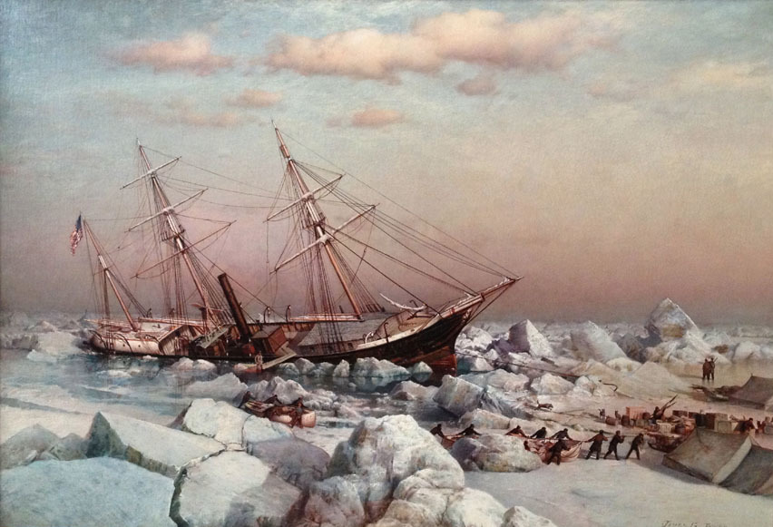 Abandoning the Arctic Exploration Ship Jeanette on June 12th 1891, by James Gale Tyler. A time-line of the expedition illustrates the enormity of the challenge the men faced. Publisher James Gordon Bennett, Jr. purchased the ship, previously the HMS Pandora, and allied with the U.S. Government to fund the expedition. The Jeanette left San Francisco on July 8, 1879 and was held fast in ice east of Wrangell Island by September. The ship drifted northwest in the ice for the rest of 1879, all of 1880 and landed at an island they named Henrietta Island, in honor of Bennett, on May 9, 1881. This was more than 600 miles from where they first became stuck. While trapped, the men led by Lieut. Commander George W. DeLong, Assistant Surgeon James Ambler, Lieut. Charles Chipp and Chief Engineer George W. Melville battled hunger and fierce atmospheric conditions, all while conducting their scientific assignments, hunting, and maintaining their ship. In June 1881 the ice began to part, and hope surfaced that they might steam clear, but on June 12th the flows closed in with force and crushed the Jeanette, sinking her in less than one day. Shown here, the men pulled their meager supplies and three boats off the ship and prepared to make a 700-mile trek toward open water on the north Siberian Coast near the Lena River Delta. After almost three months, they reached the ocean and set out in the boats. Separated soon after by a storm, Chipp’s boat was lost, DeLong’s went off course and only one boat led by Melville found safety with local inhabitants. Two of DeLong’s group, Seamen Noros and Nindemann, managed to survive by setting out to find help for them all. Melville later returned to the Siberian Arctic to search for his lost captain, and found their last camp and the written journals DeLong had kept the entire trip, along with many sketches. Provenance: India House, New York